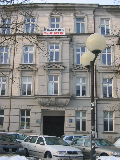 Warsaw, Smolna Street 38